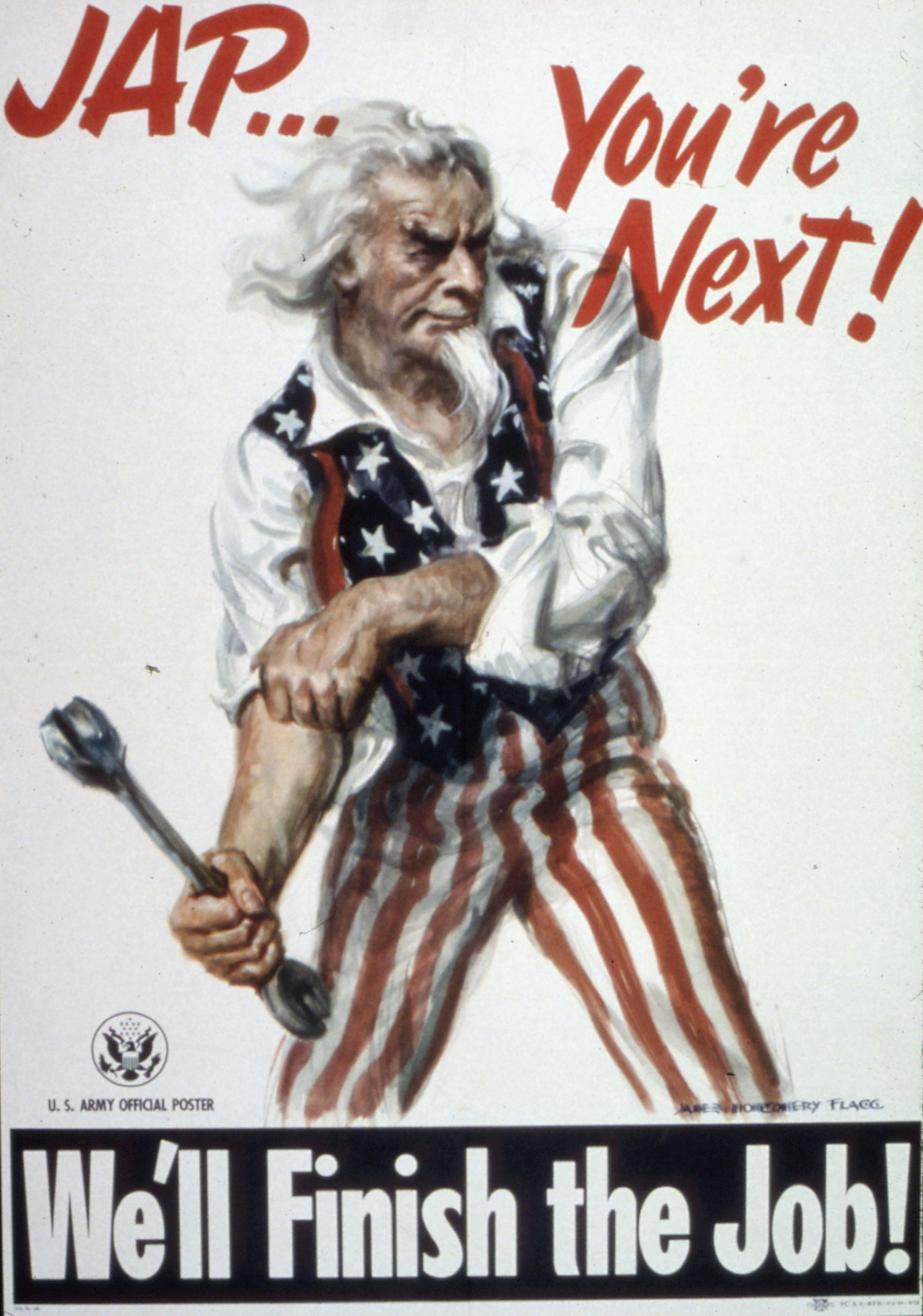 General notes: Use War and Conflict Number 824 when ordering a reproduction or requesting information about this image.